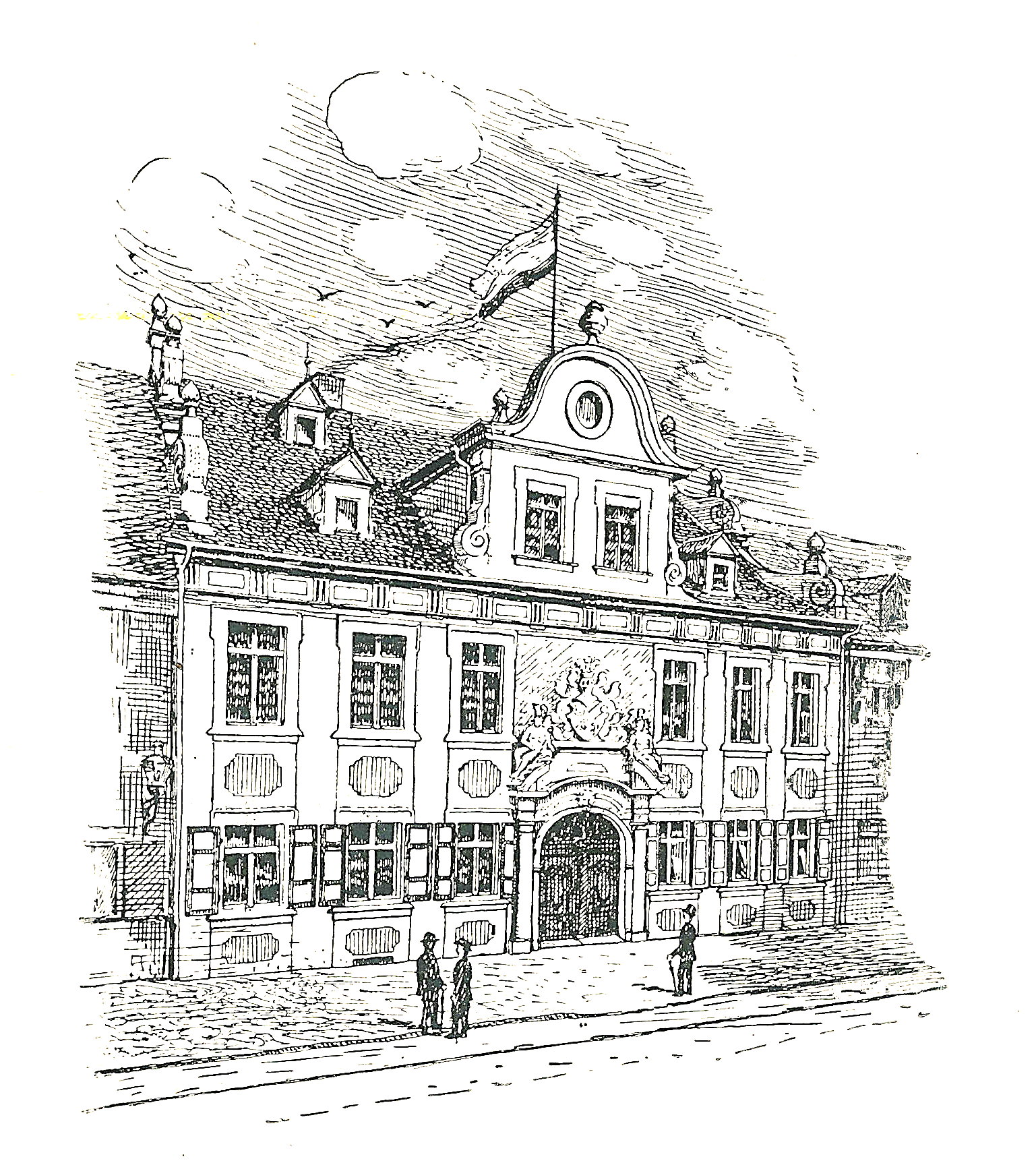 Former house of student fraternity Corps Bavaria Erlangen (Germany), Hauptstrasse 7